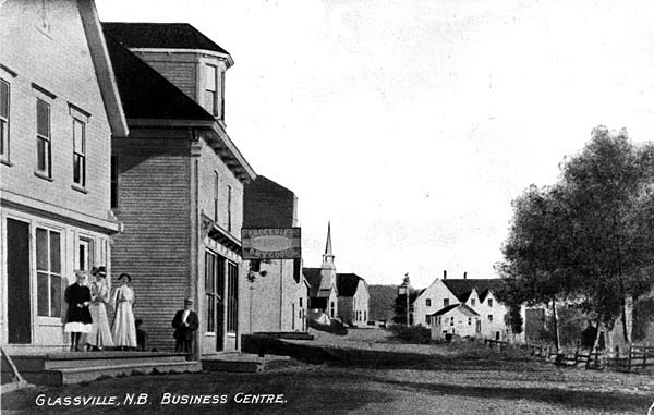 Main Street, ca. 1910-1912. New Brunswick Provincial Archives number P37-502.